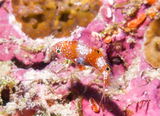 Macropharyngodon bipartitus juvenile